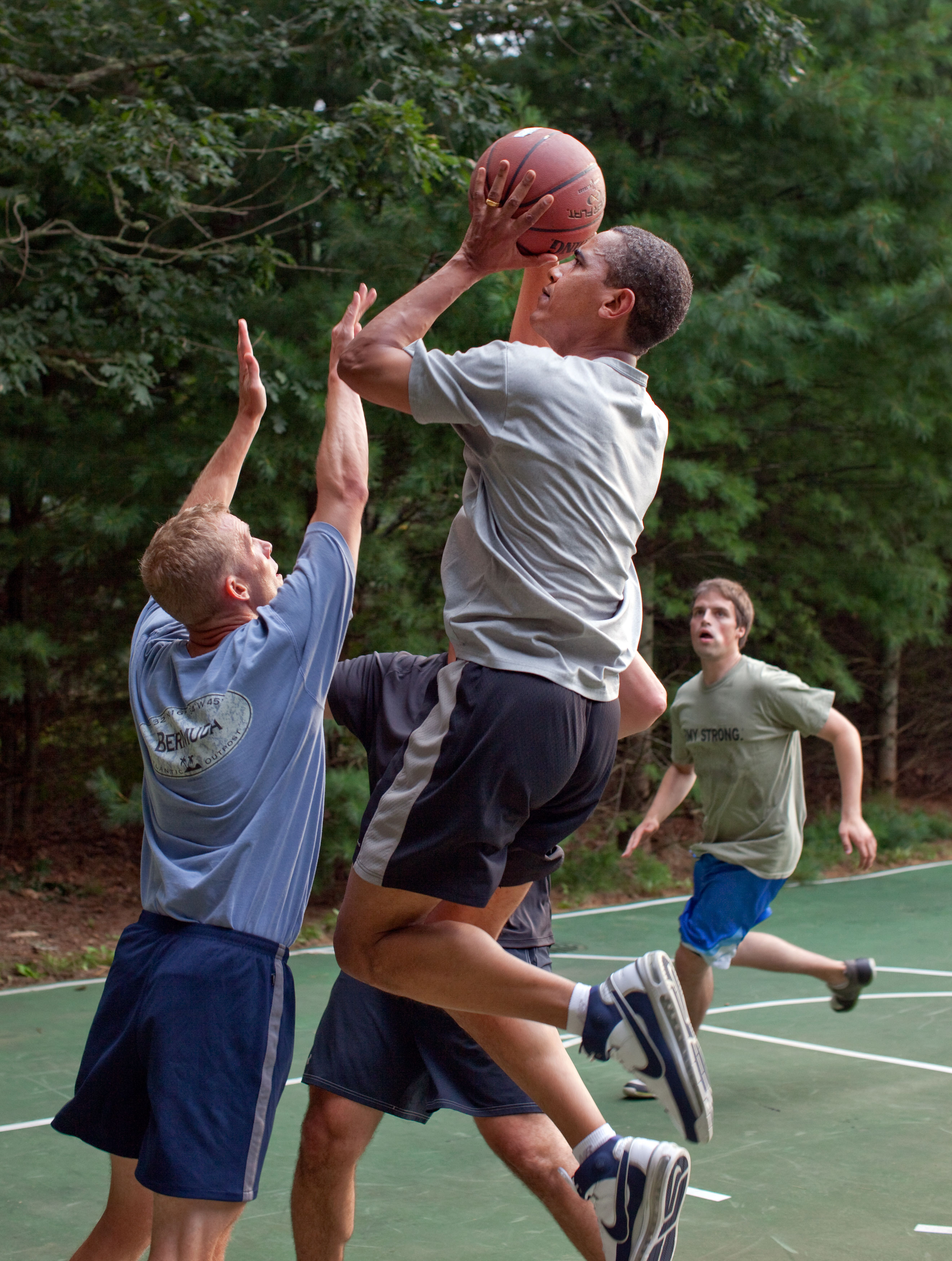 President Barack Obama plays basketball with White House staffers while on vacation on Martha's Vineyard, Aug. 26, 2009. (Official White House Photo by Pete Souza) This image is a work of an employee of the Executive Office of the President of the United States, taken or made as part of that person's official duties. As a work of the U.S. federal government, the image is in the public domain.